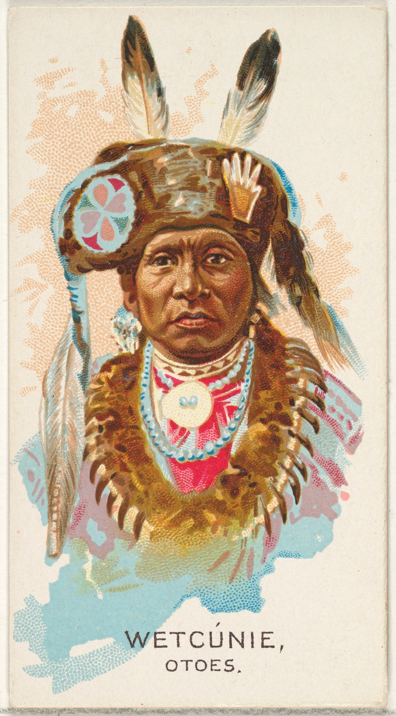 Print; Prints